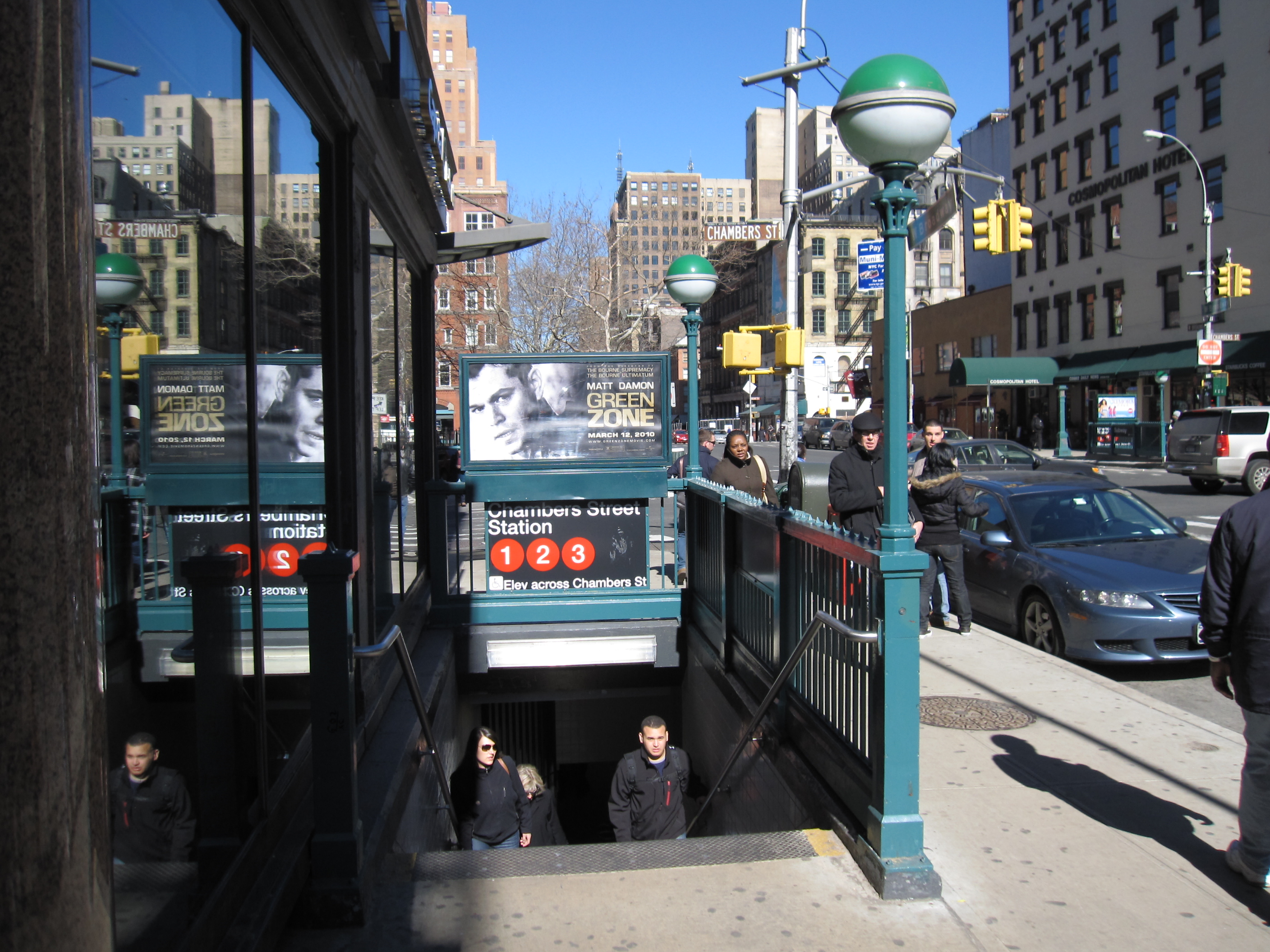 Chambers Street IRT